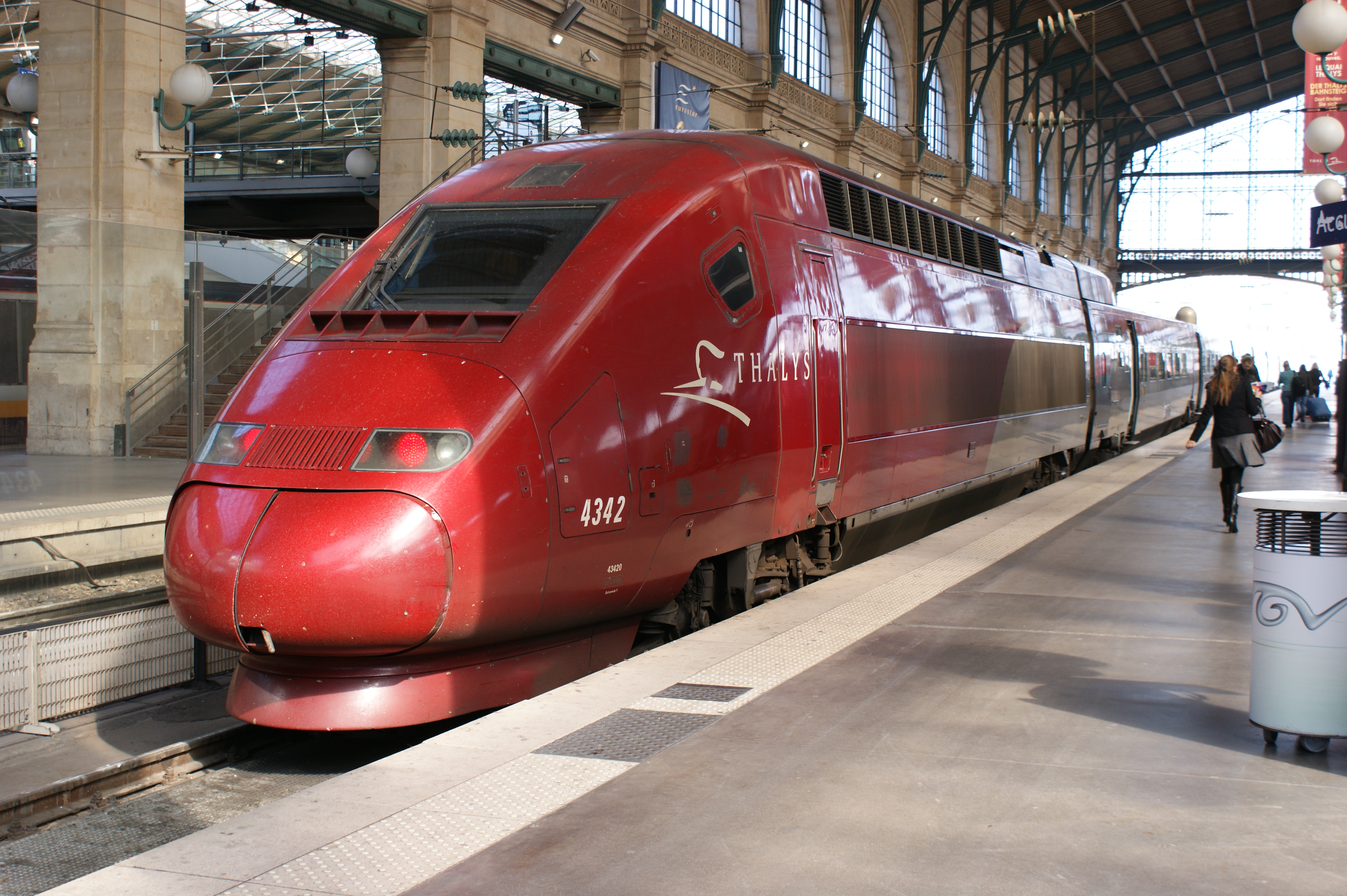 SNCF GEC-Alstom/de Dietrich/ Bombardier Thalys PBKA 25kV ac/15k V ac/1,500V dc/3,330V dc 8-car emu No.4342 on a service from Koln, 4/09.